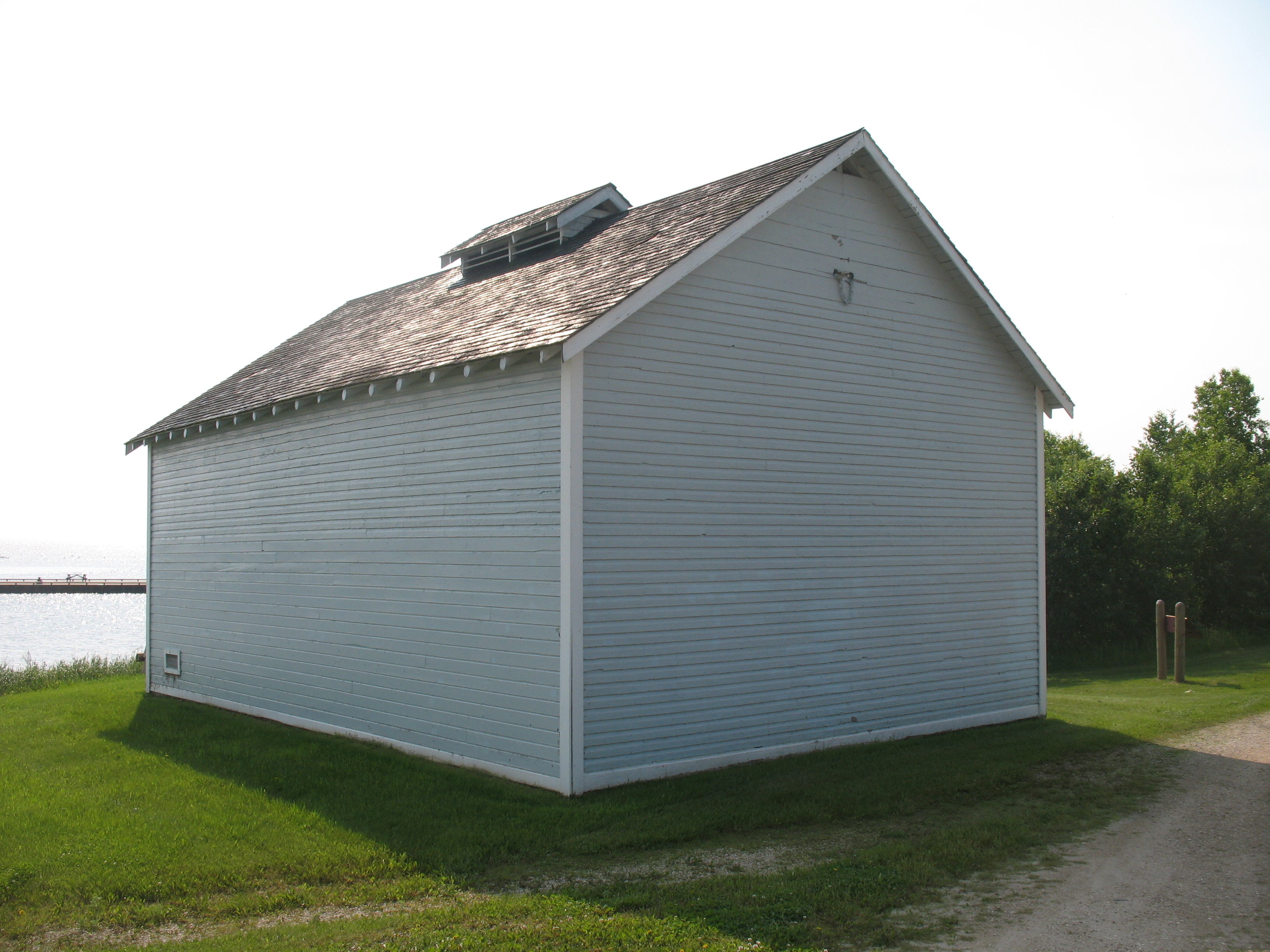 ice house on Hecla Island, Manitoba